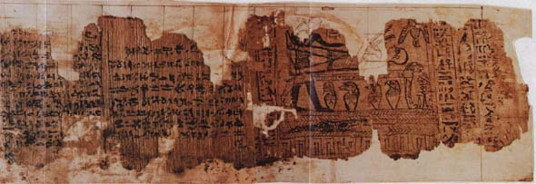 Two Egyptian papyrus fragments of unknown authorship. These two fragments are known as Joseph Smith Papyrus XI(left) and I(right), and are thought by some to be one source of the Book of Abraham as translated by Joseph Smith. See also Joseph Smith Papyri.